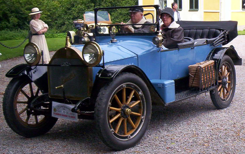 Hupmobile Model 32 Touring 1914